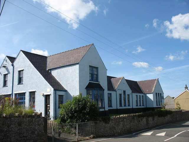 Ysgol Gymuned Pentraeth Community School